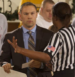 Emporia State Lady Hornets Head Basketball Coach, Jory Collins, talking with a referee at a basketball game in November 2015.